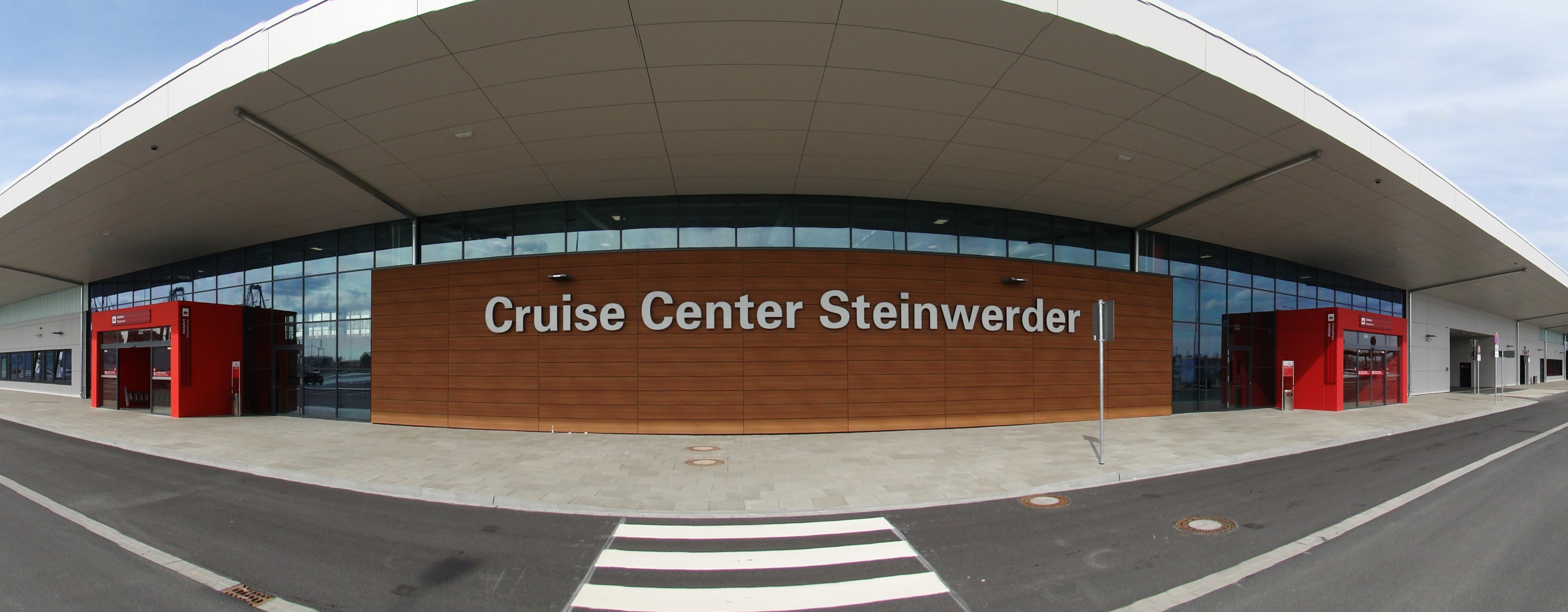 Hamburg Cruise Center Steinwerder